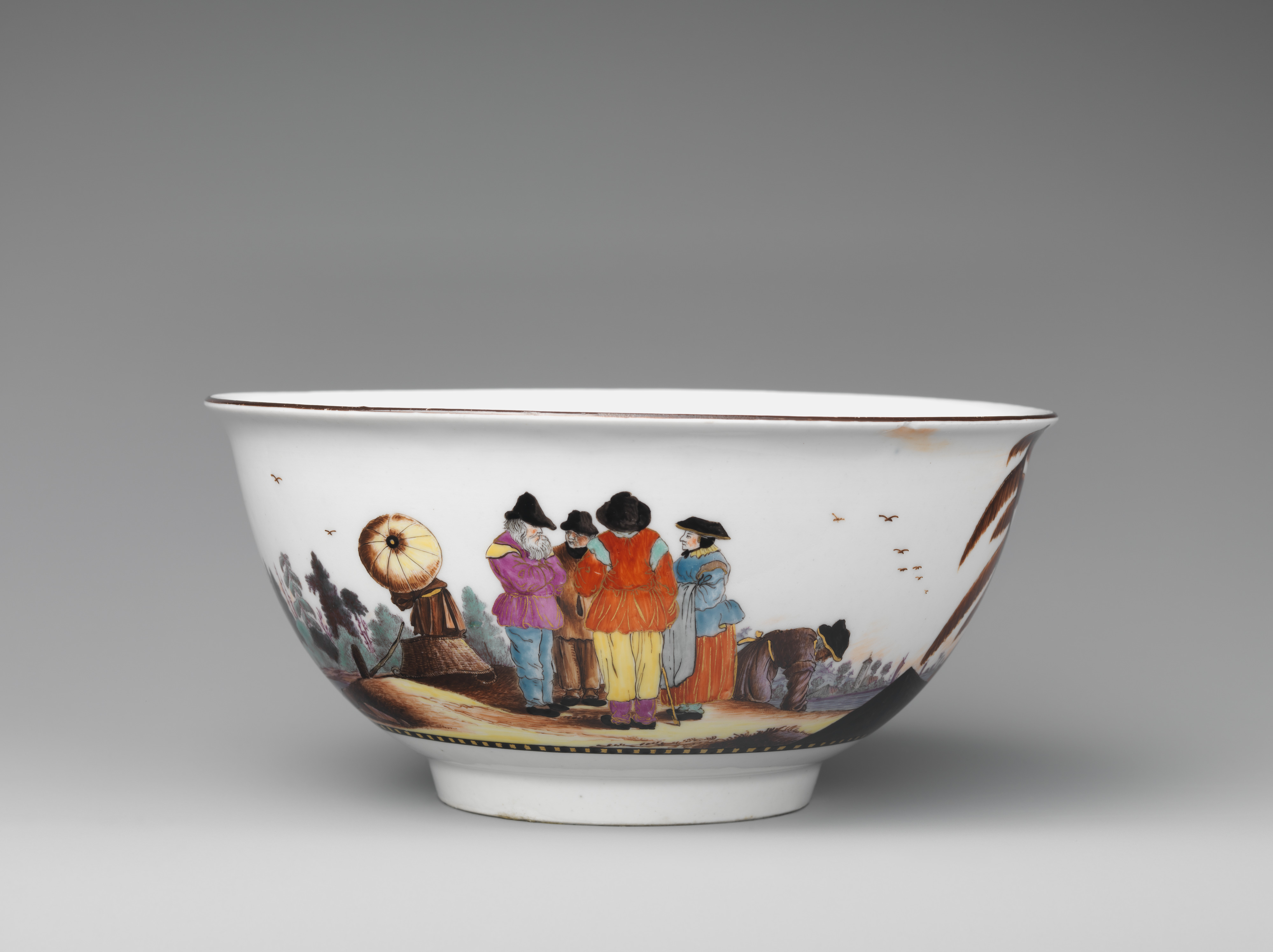 German, Meissen; Bowl; Ceramics-Porcelain